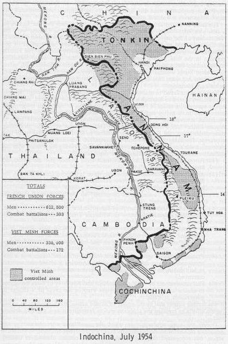 This is a picture in page 123 of The Pentagon Papers Gravel Edition Volume 1, Chapter 3, "The Geneva Conference, May-July, 1954" (Boston: Beacon Press, 1971)